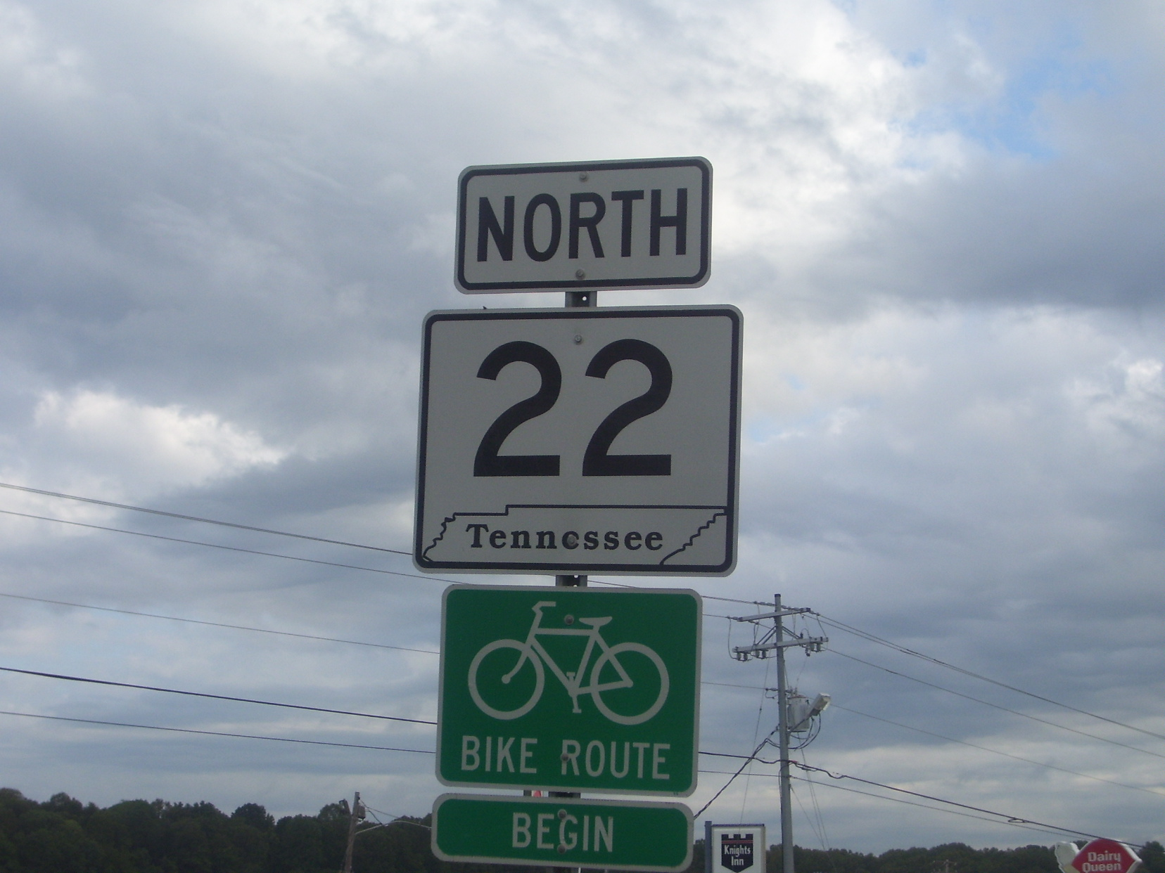 Tennessee State Route 22 (primary route) shield near Wildersville, TN, just north of Interstate 40.